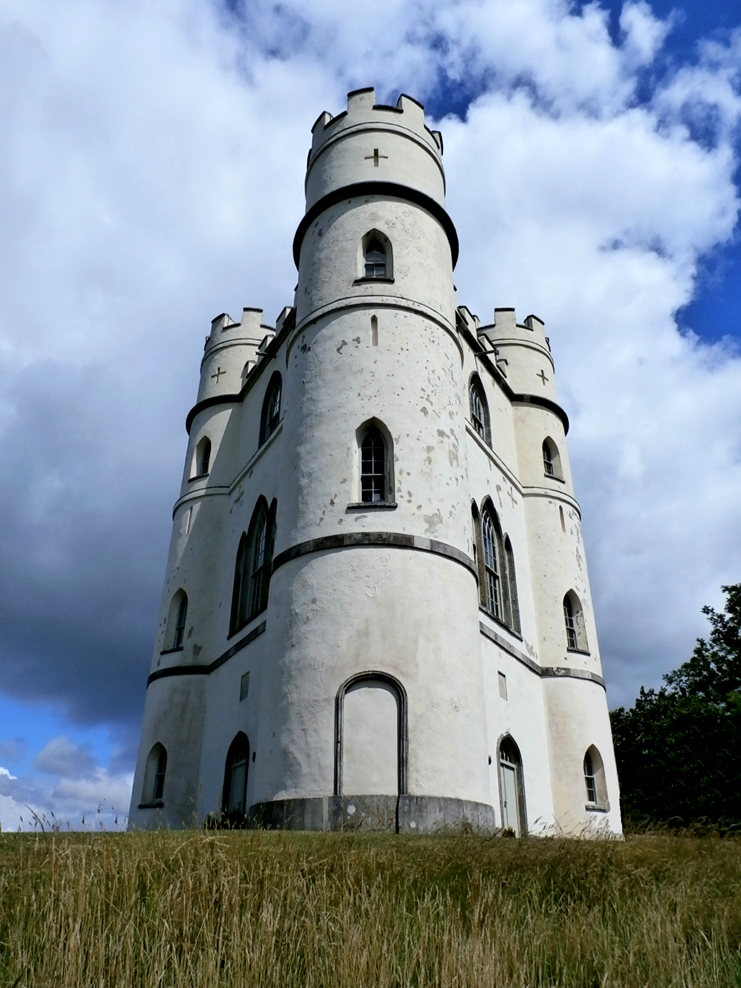 Haldon Belvedere (alias Lawrence Tower), Pen Hill, Haldon House estate, Dunchideock, Devon